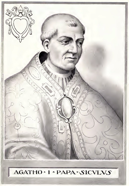 This illustration is from The Lives and Times of the Popes by Chevalier Artaud de Montor, New York: The Catholic Publication Society of America, 1911. It was originally published in 1842.